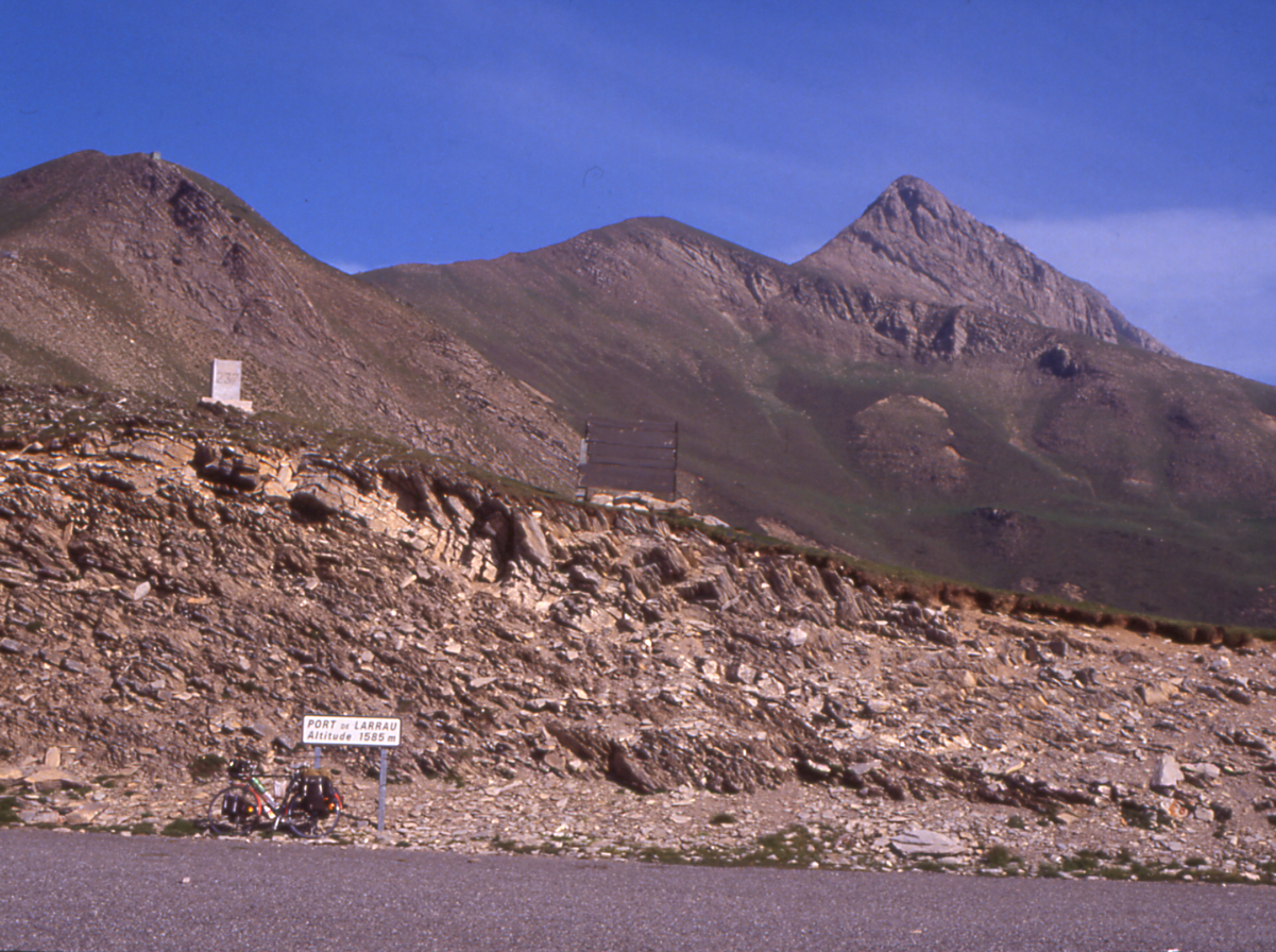 Col de Larrau and Pic d'Orhi on the border of Spanish Navarra and France